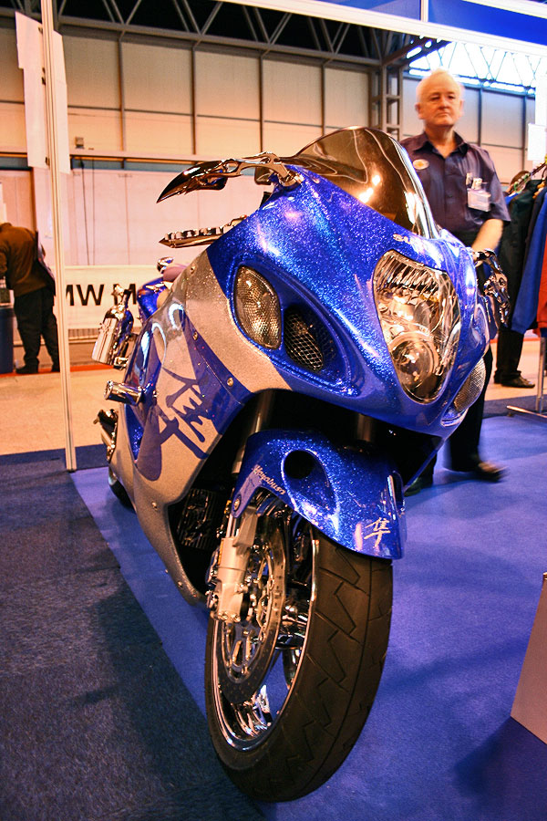 The Owners Club patron was eyeballing me the whole time I was taking photos - I would be too if it were my bike!